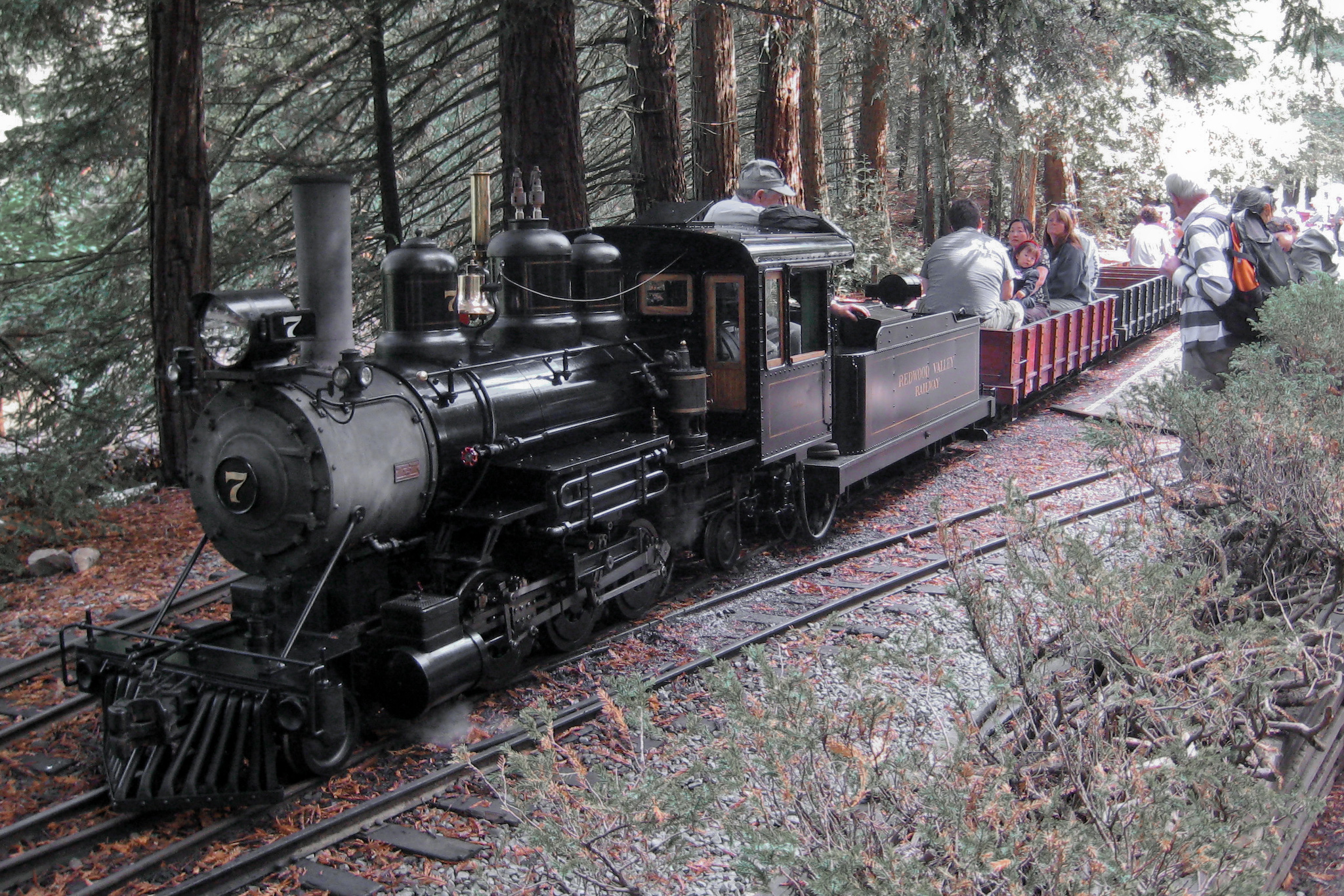 Redwood Valley Railway, a ridable miniature railroad in Tilden Regional Park near Berkeley, California.